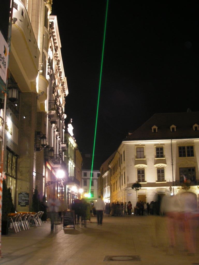 Image of the a street with a laser light art installation, probabbly Sedlárska street in the old town of Bratislava, Slovakia.